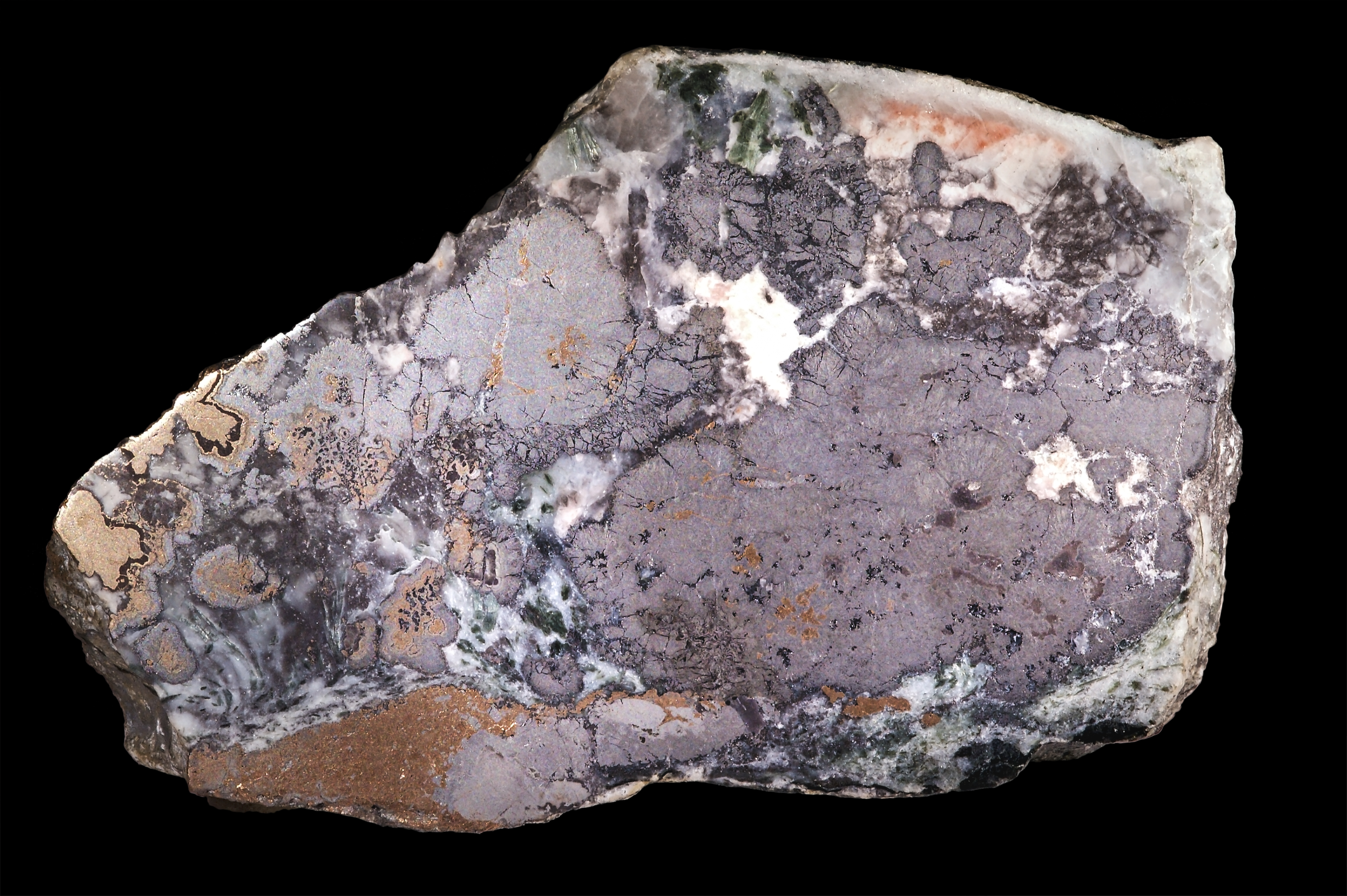 Smaltite and Nickeline Locality :Silver Bar Mine, Cobalt, Coleman Township, Timiskaming District, Ontario, Canada Size : (15x10cm)